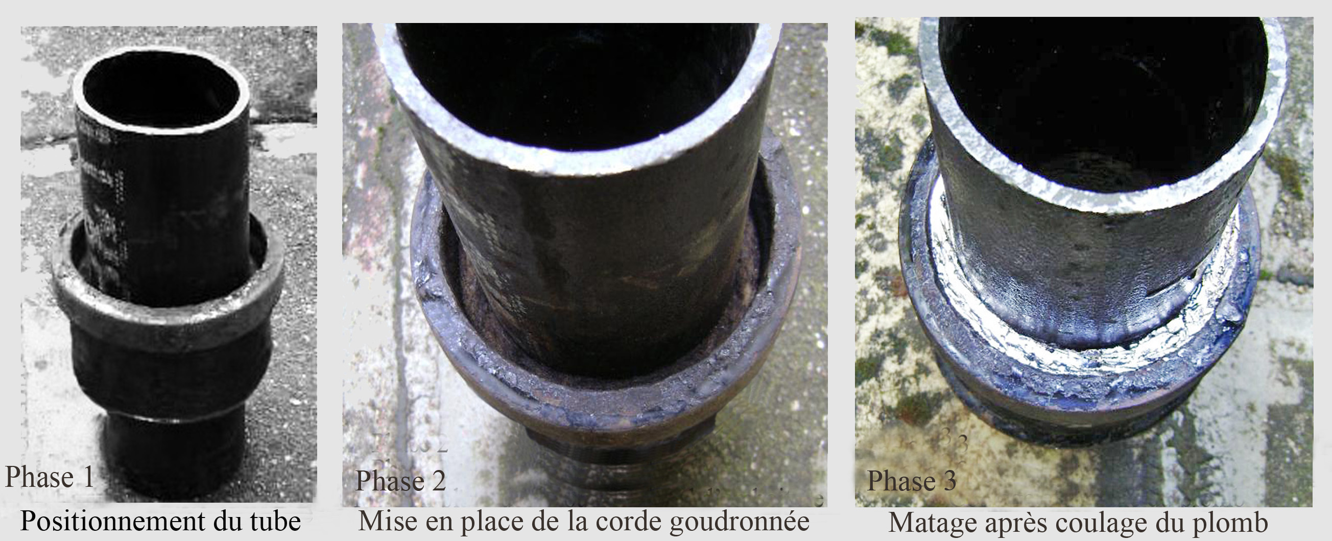 Principle of lead joint on cast iron pipe.